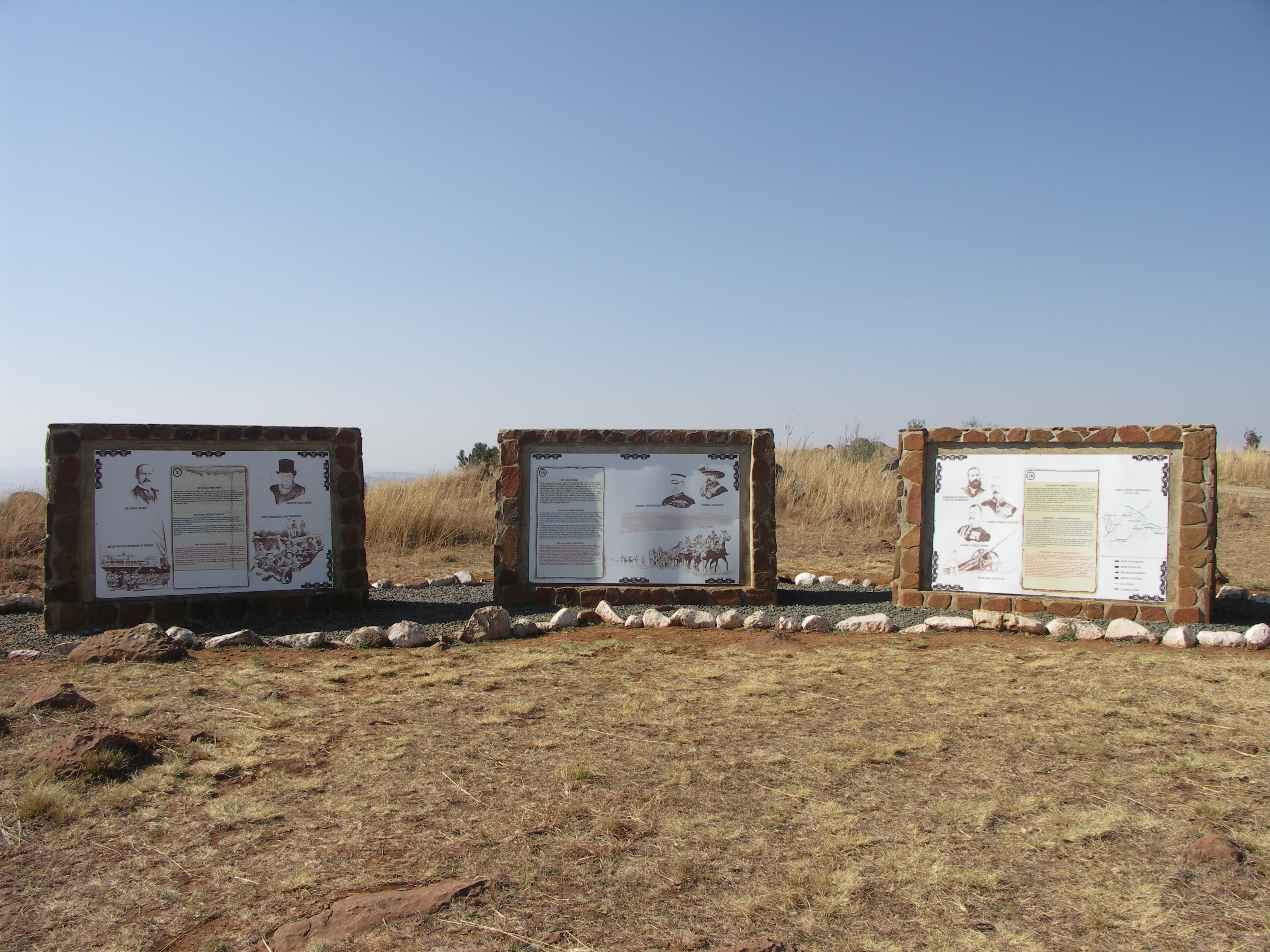 Visitors information boards on the Spion Kop battlefield